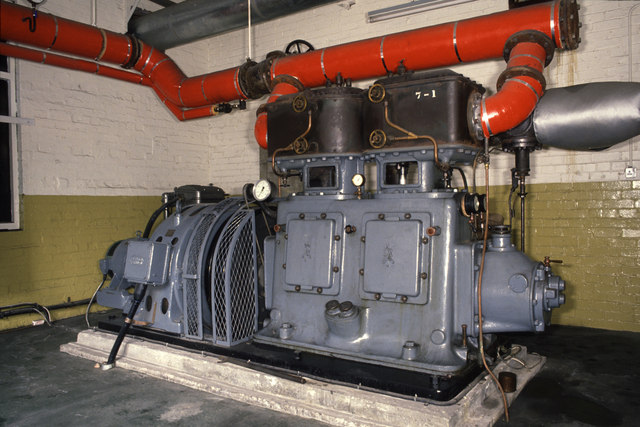 George Street Mills - the third engine This Ashworth and Parker duplex was added in 1988, secondhand from a dyers in Bulwell, Notts. It was apparently greedy and saw little use. It was in a separate engine house to the two Belliss engines.